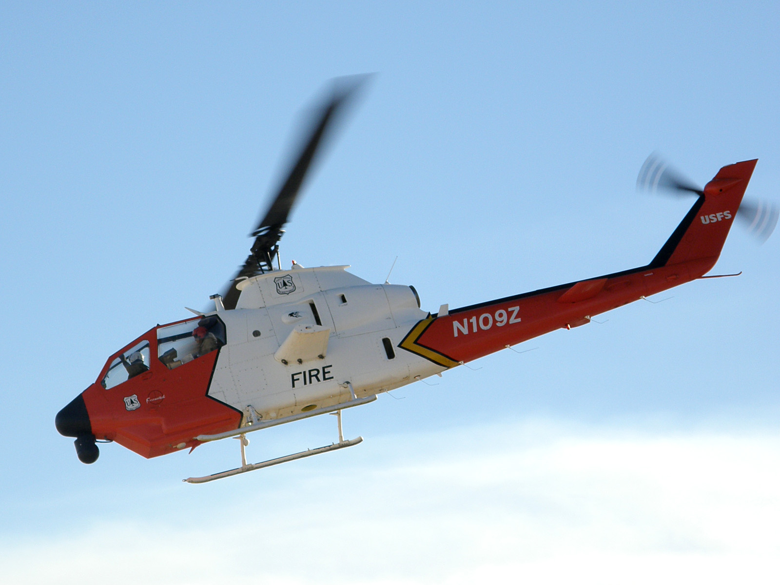 USFS Firewatch Bell 209 Cobra at Fox Field, Lancaster CA, during the 2007 SoCal wildfires.